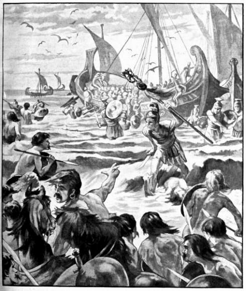 Landing of the Romans on the Coast of Kent - from Cassell's History of England, Vol. I - anonymous author and artists